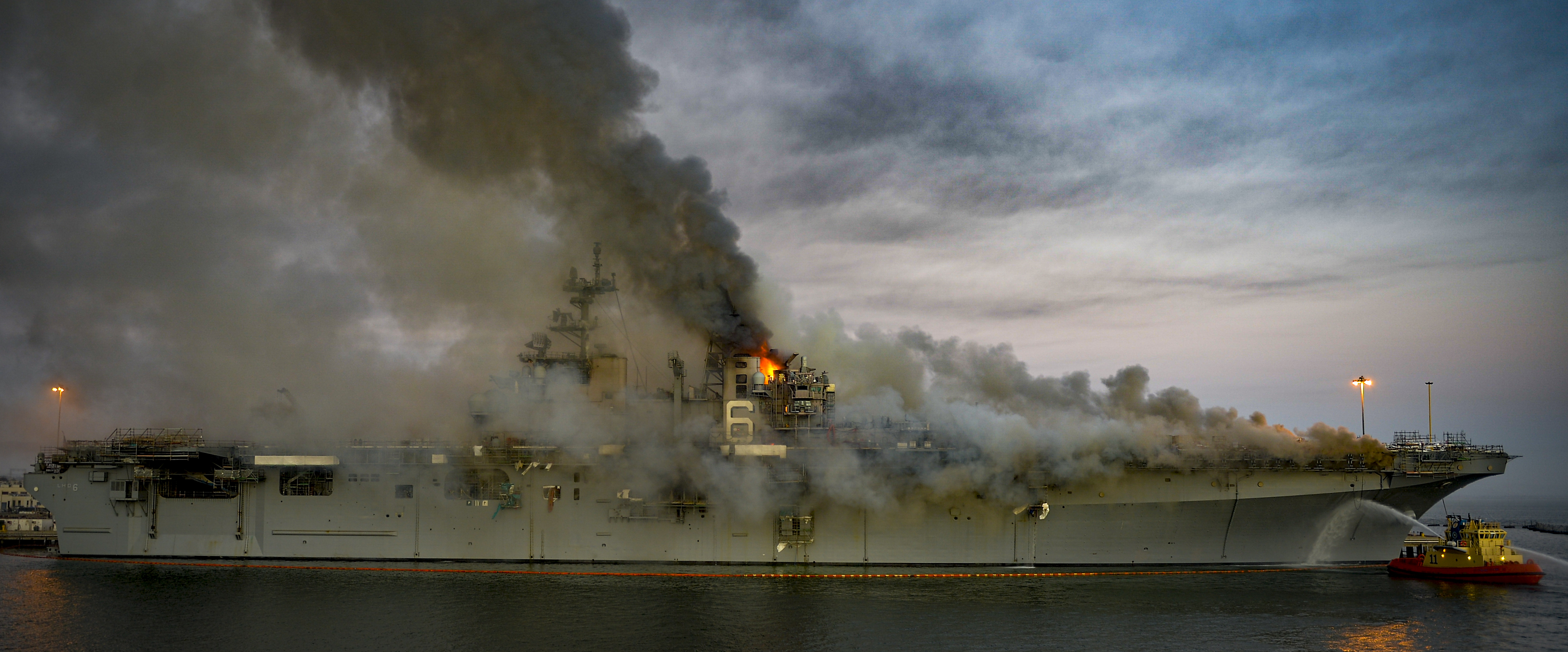 SAN DIEGO (July 12, 2020) The U.S. Navy amphibious assault ship USS Bonhomme Richard (LHD-6) on fire at Naval Base San Diego, California (USA), on 12 July 2020. On the morning of 12 July, a fire was called away aboard the ship while it was moored pier side at Naval Base San Diego. Base and shipboard firefighters responded to the fire. Bonhomme Richard was going through a maintenance availability, which began in 2018. The fire was extinguished on 16 July.